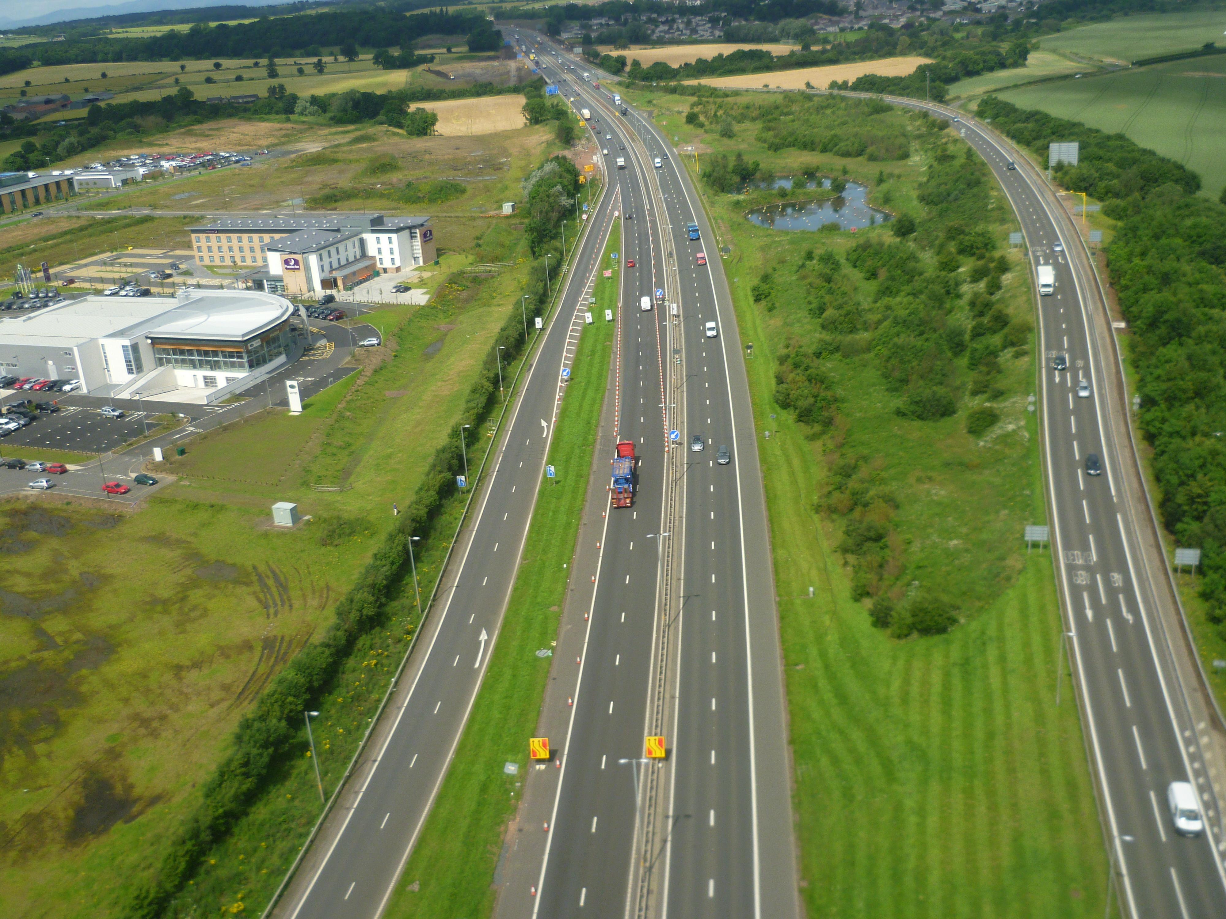 M9 Motorway with north and south spurs (left and right), looking northwards from above the Newbridge Roundabout, west of Edinburgh.